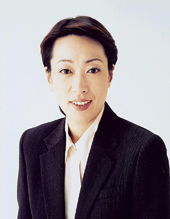 Seiko Hashimoto as Senior Vice Minister for Foreign Affairs of Japan.